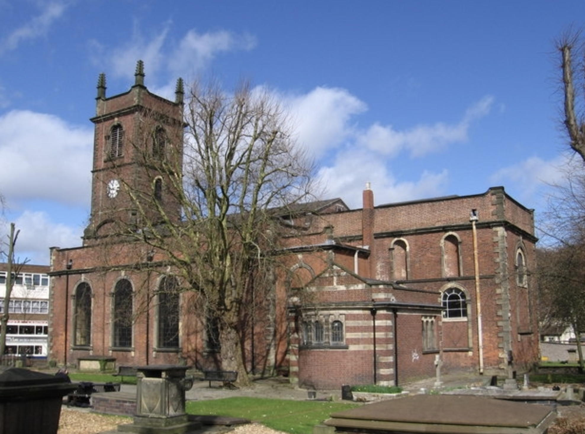 Parish church of St Edmund, King and Martyr, Castle Street, Dudley, West Midlands, seen from the southeast